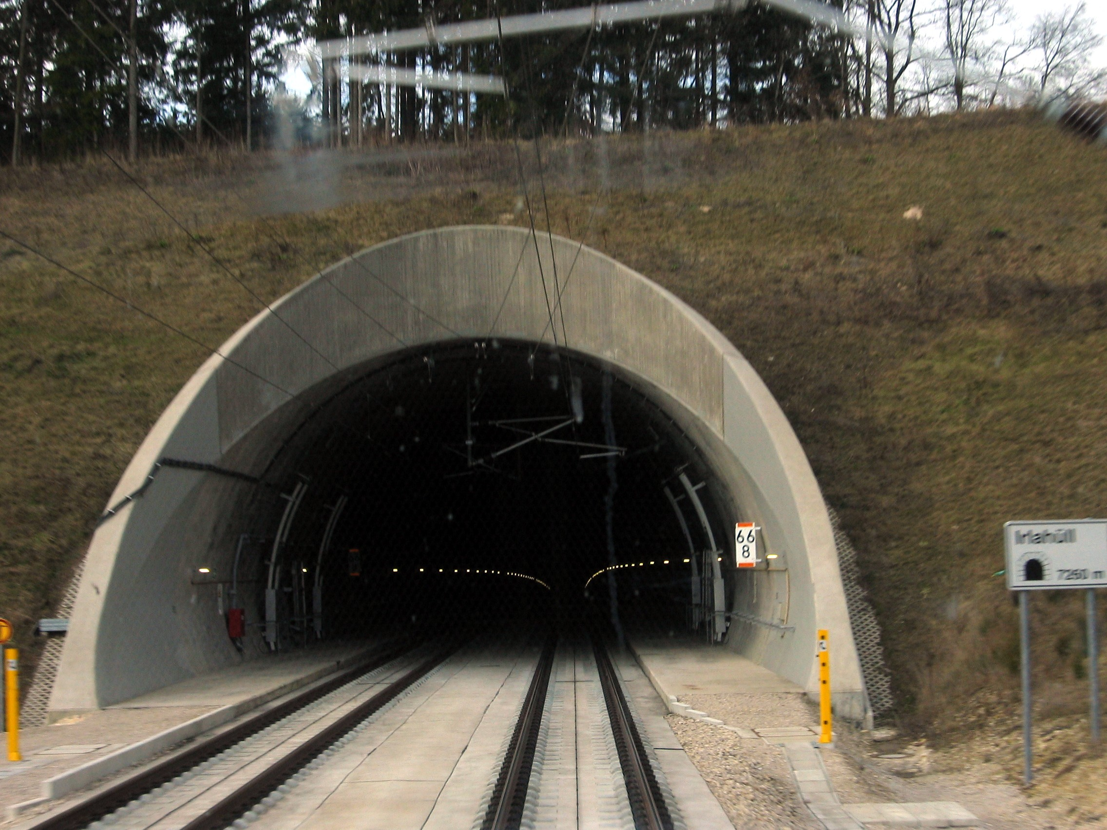 South portal of the Irlahuell tunnel, Nuremberg-Ingolstadt high-speed railway track, Germany